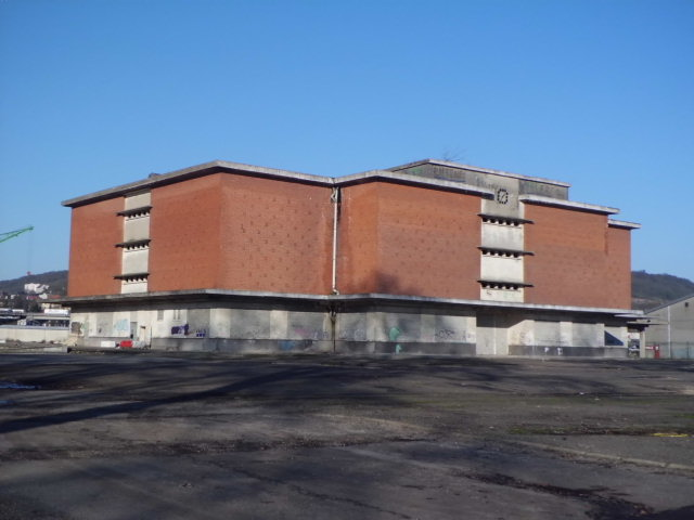 Former wine warehouse (Rouen, Normandy)